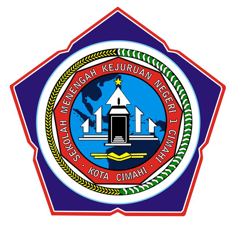 Logo SMK Negeri 1 Cimahi - 2014